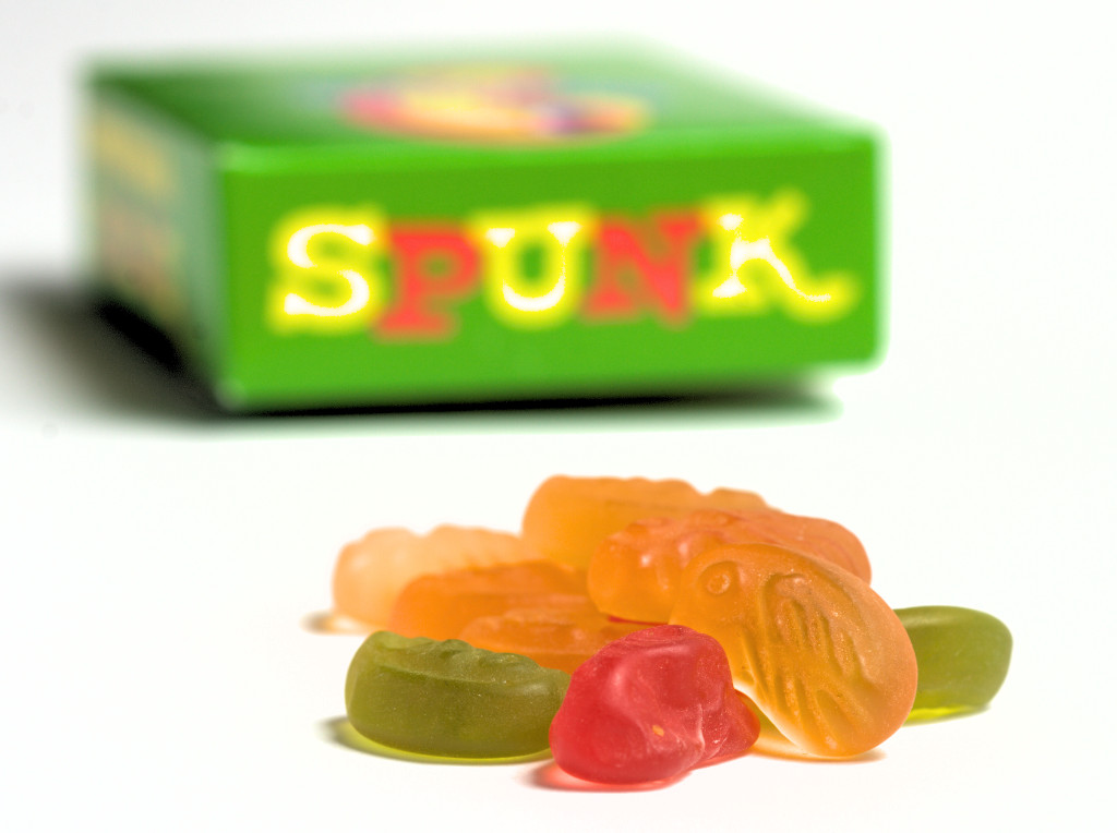 Spunk, a gummi candy made by Galle og Jessen